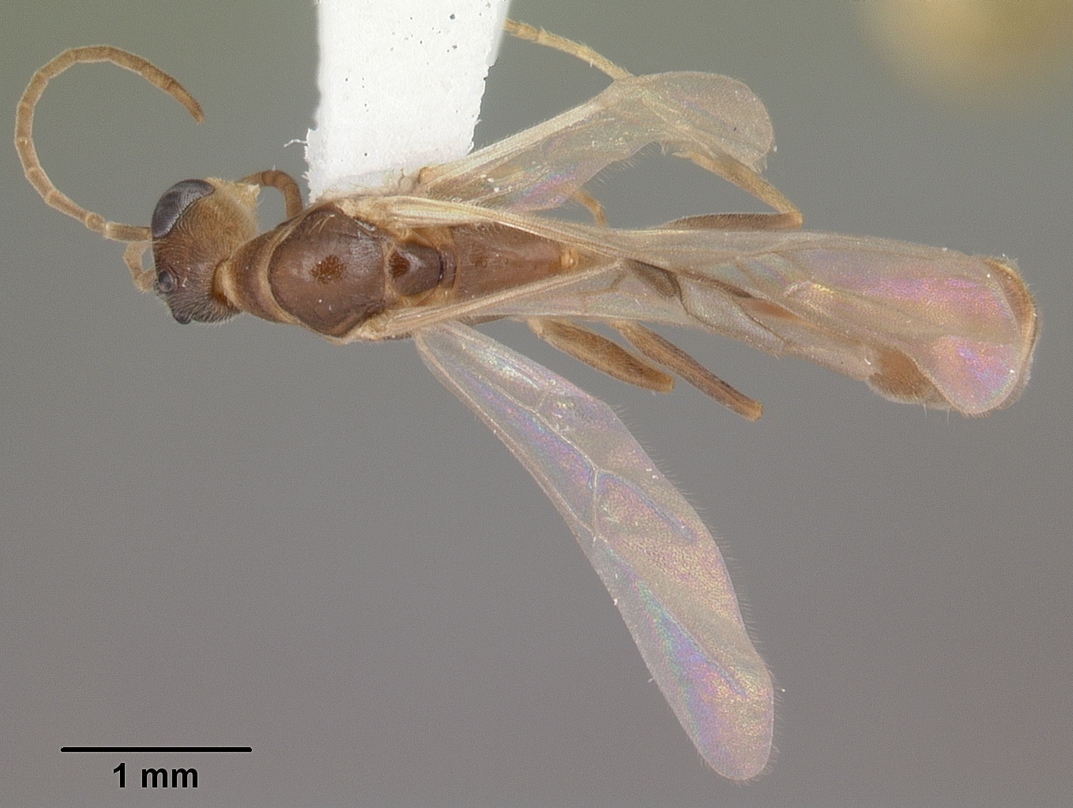 Dorsal view of ant Pseudomyrmex pallidus specimen casent0104249.